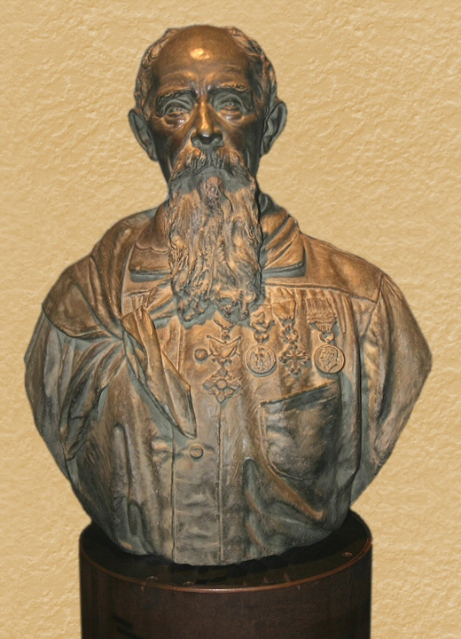 Bust of Vittore Tasca, italian patriot (1821-1891)